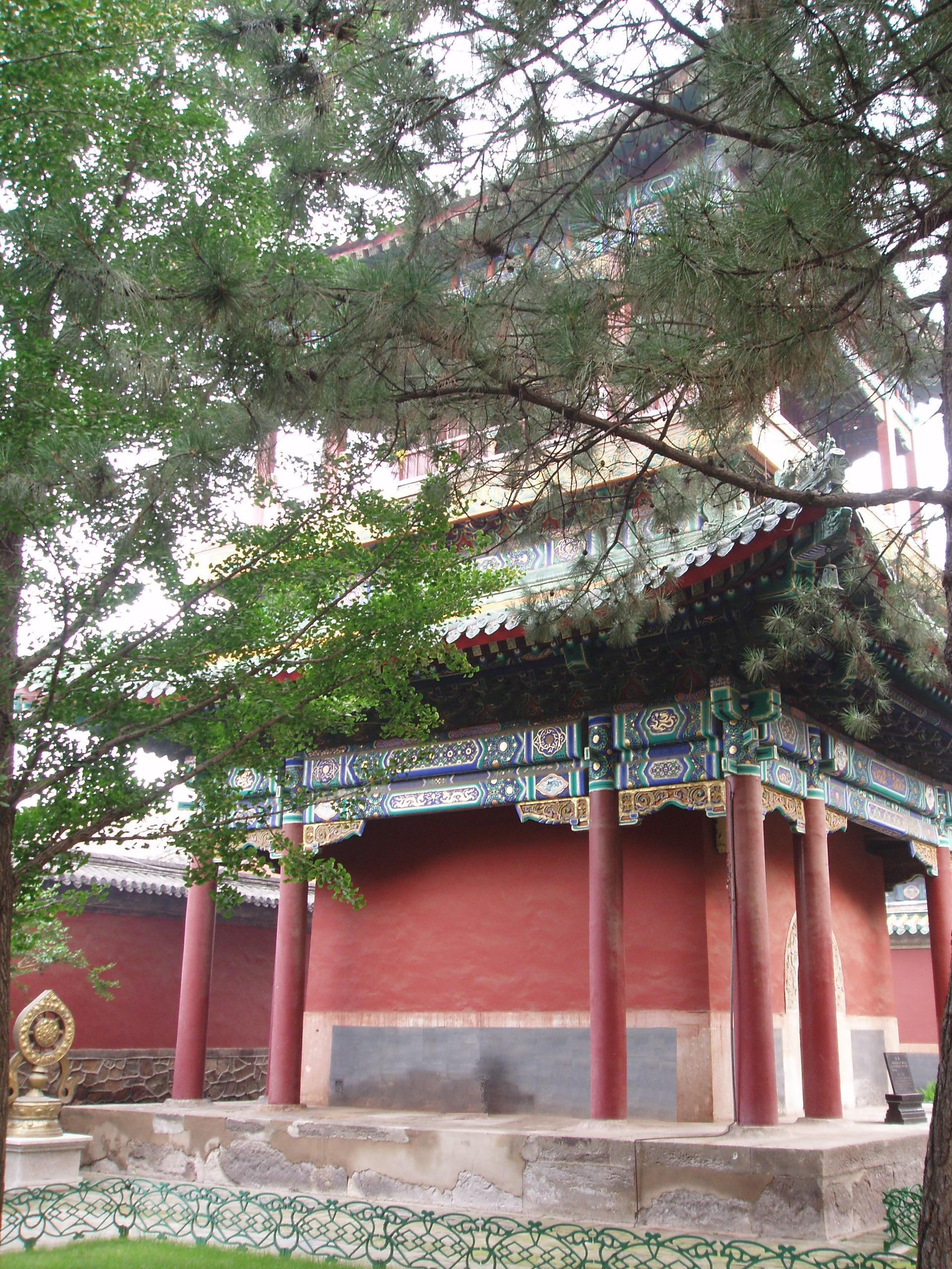 Puning Temple in Chengde, China